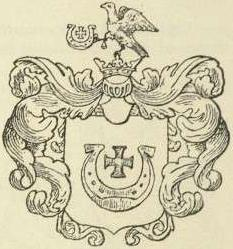 Coat of Arms Jastrzębiec from reprint of "Nomenclator" by Wojciech Wiiuk Kojałowicz, orginal work from 1658, reprint from 1905